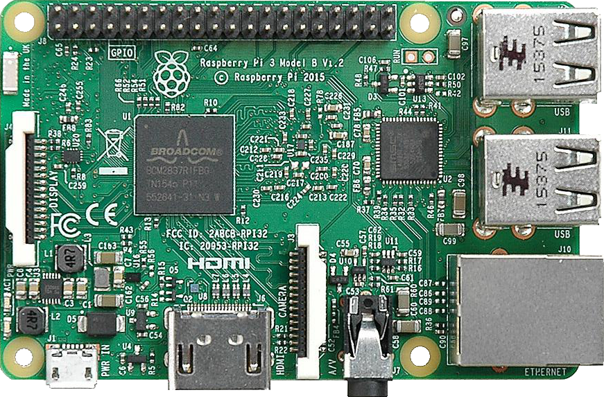 Raspberry Pi 3 Model B